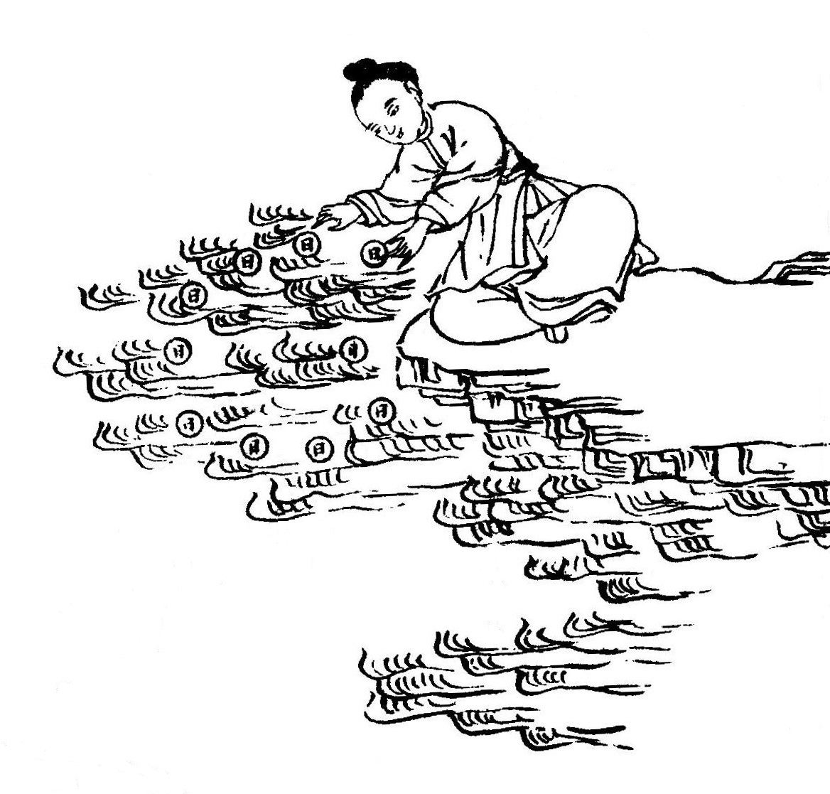 Xihe bathing the ten suns. Originally drawn in the 19th century.